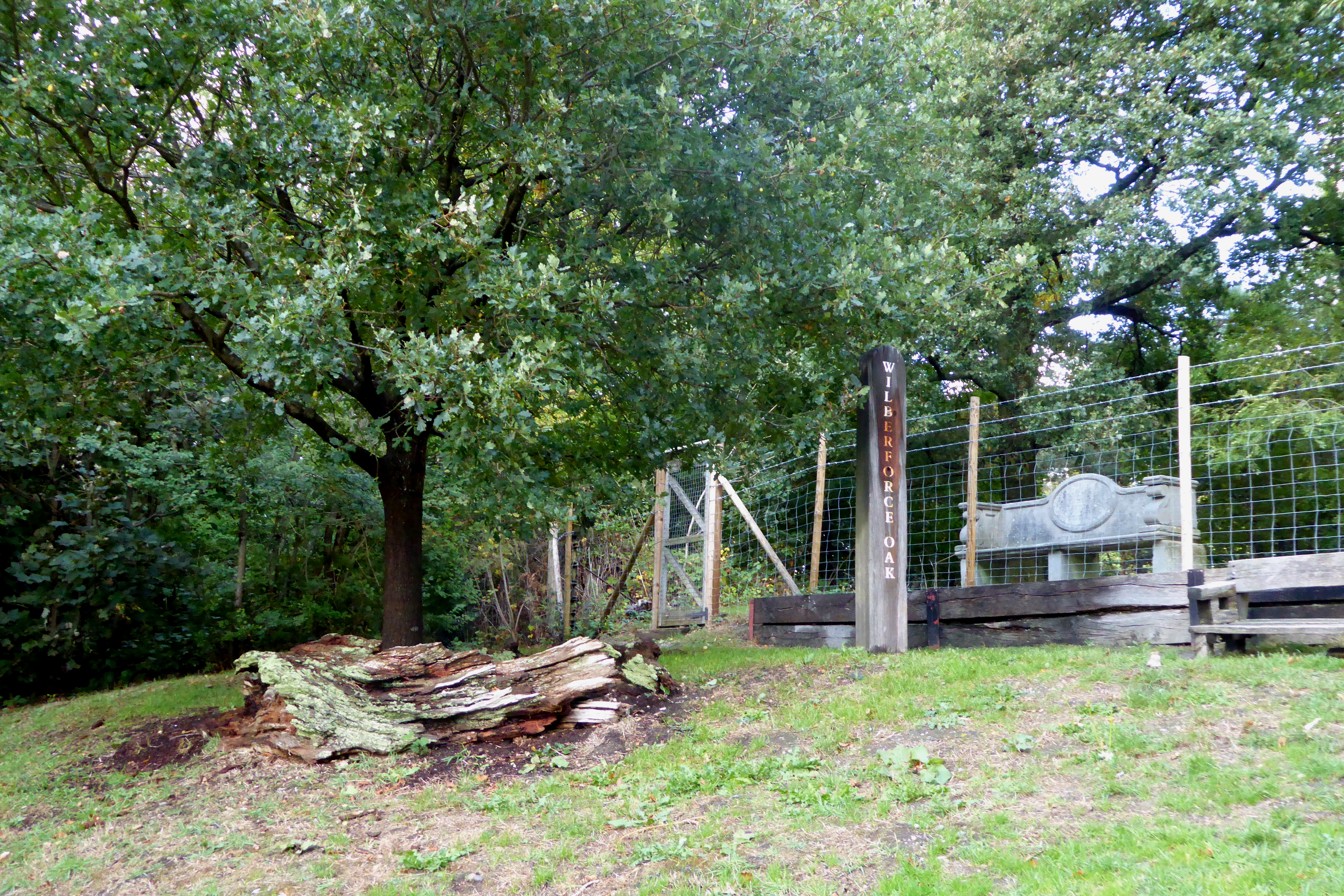 The Wilberforce Oak and Wilberforce Seat in Keston Common.